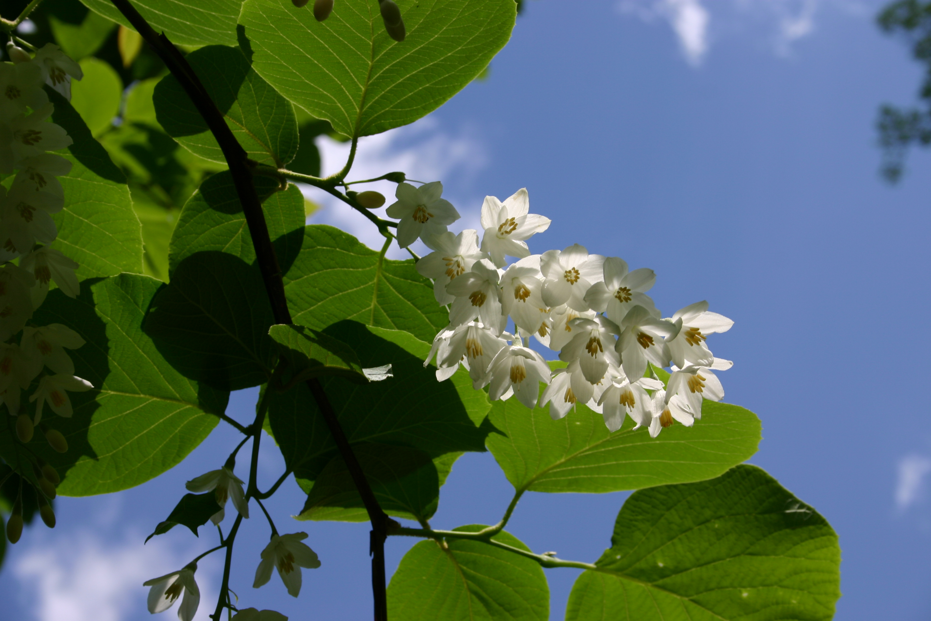 Flowers of Styrax obassia